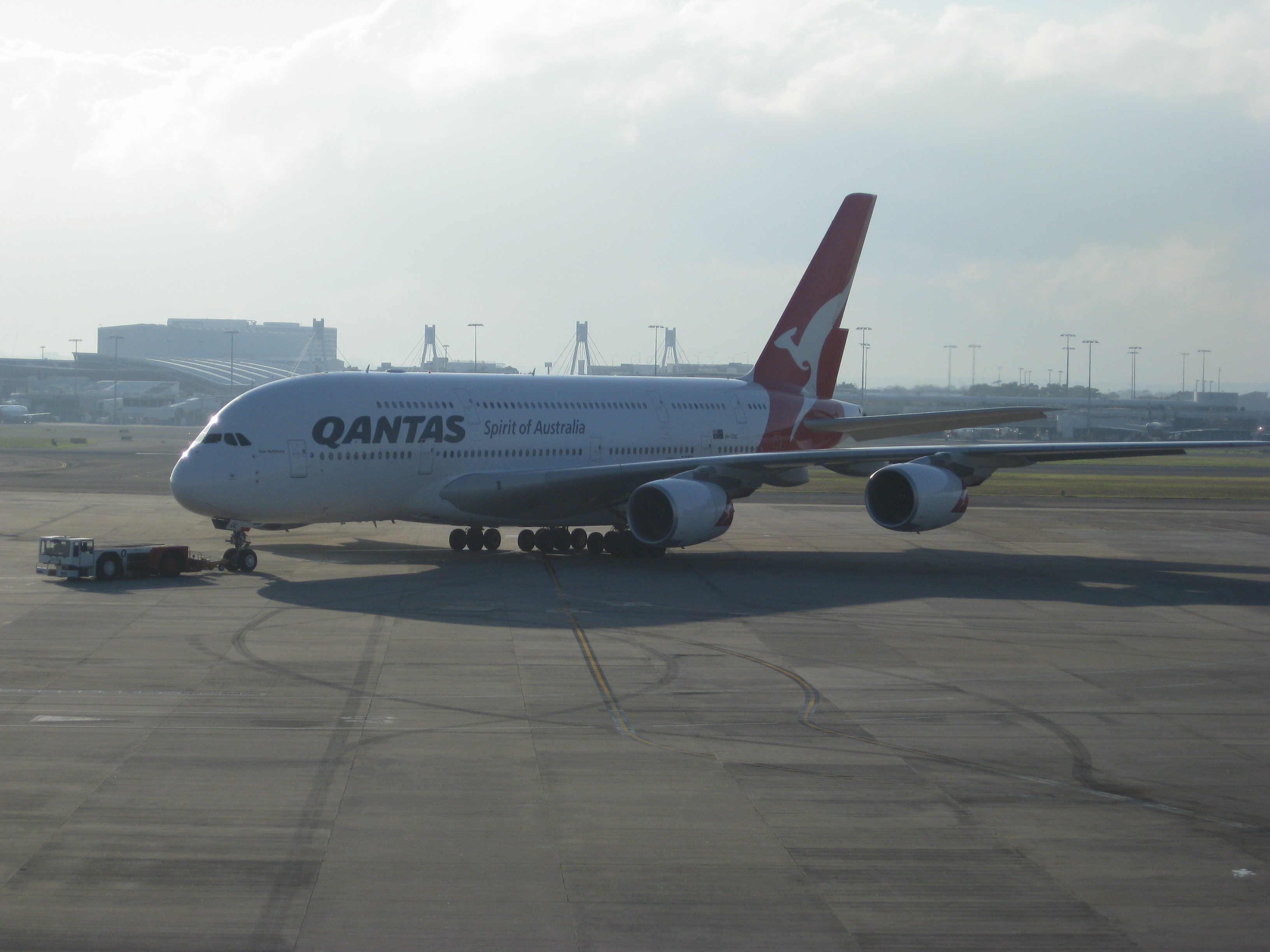 A Qantas Airbus A380 during pushback at Sydney Airport.